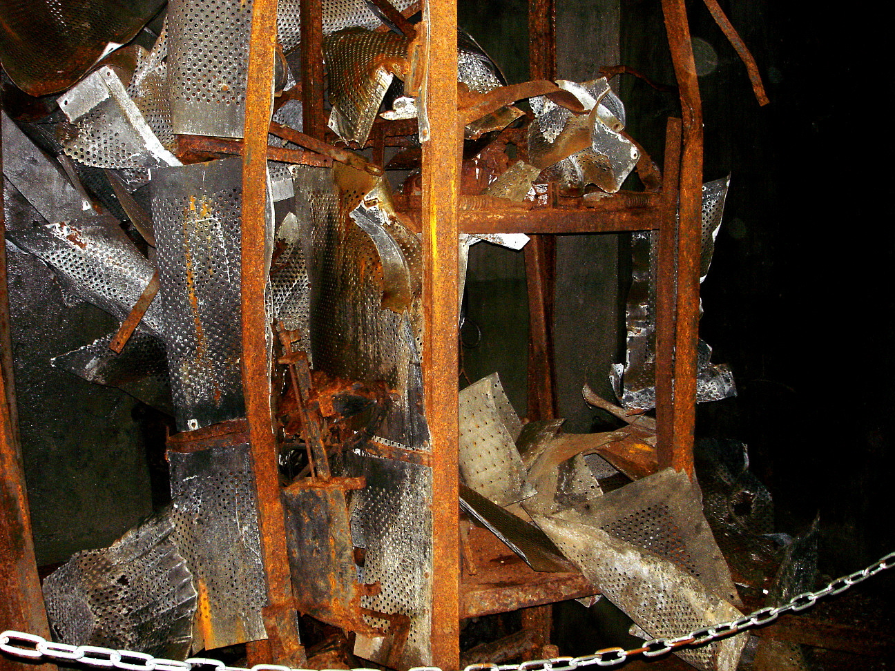 Fort Eben-Emael